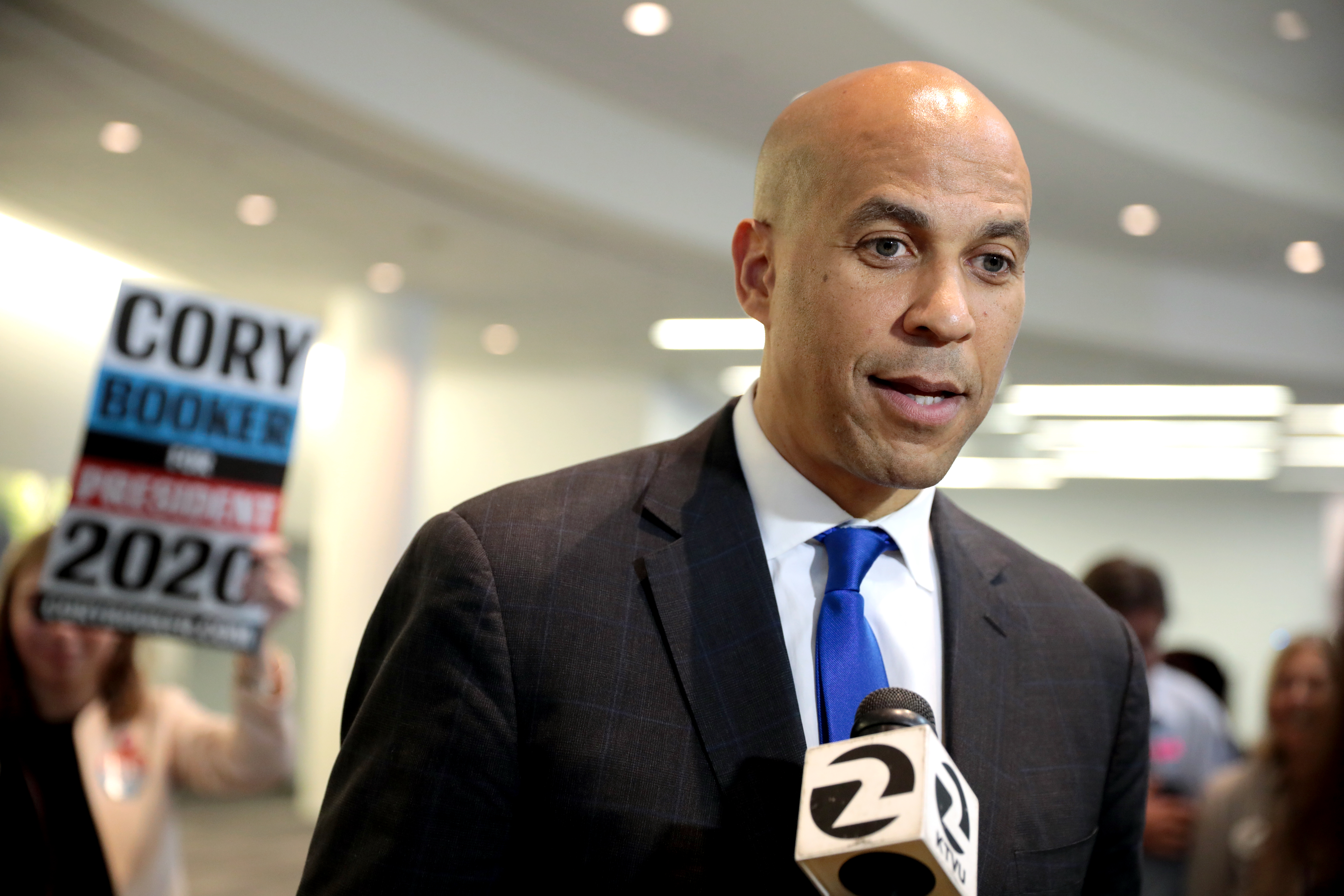 U.S. Senator Cory Booker speaking with the media at the 2019 California Democratic Party State Convention at the George R. Moscone Convention Center in San Francisco, California.